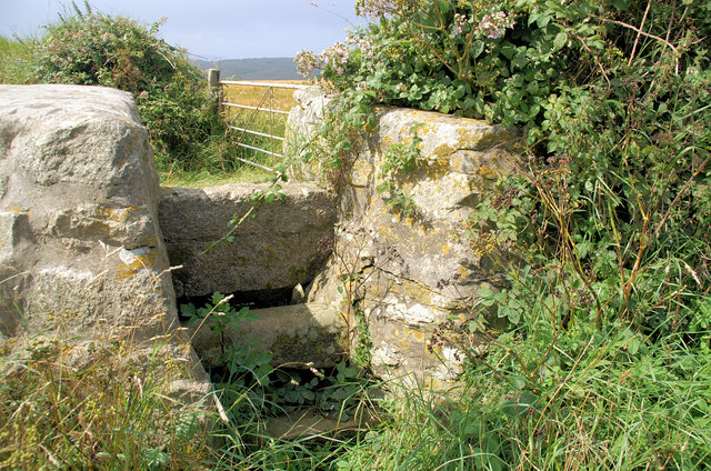 Stone Stile A stile at the end of the footpath from Holywell Road to Ellenglaze. Built from a variety of stones, with granite steps.